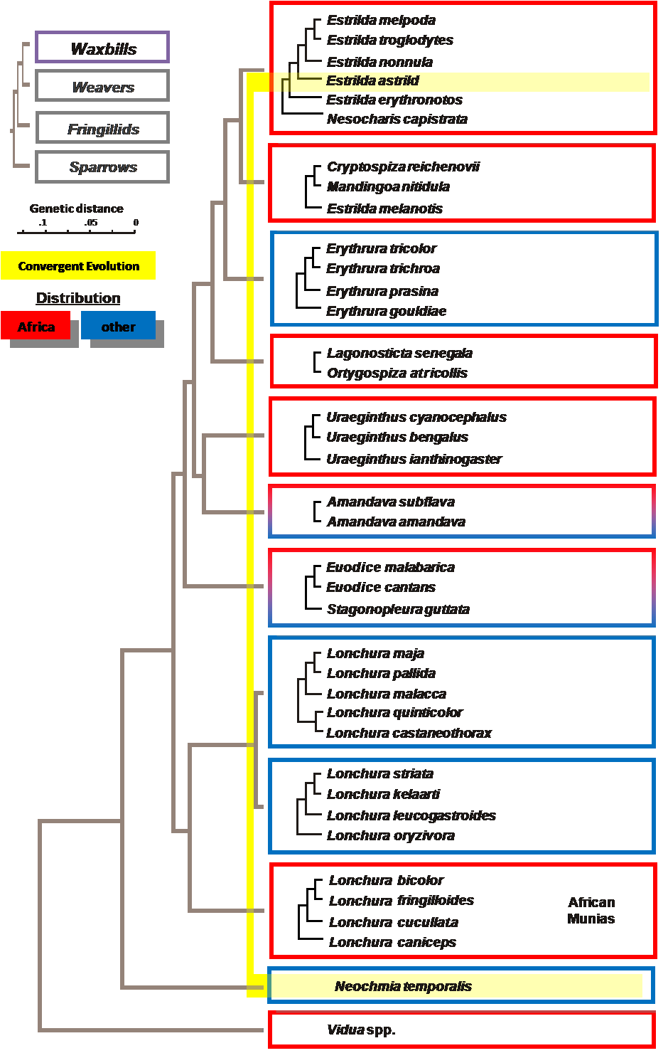 Phylogenetic tree showing evolutive relationships, genetic distance, and convergent evolution among waxbills (Passeri:Estrildidae)